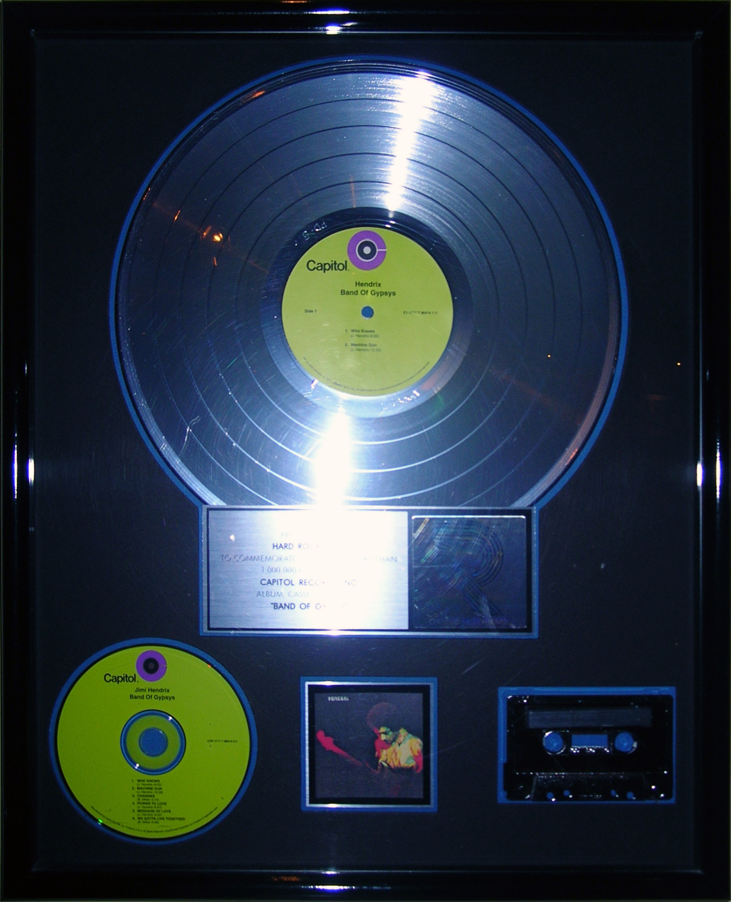 The platinum record for Band of Gypsys on display at the Hard Rock Cafe Hollywood at Universal CityWalk, California.